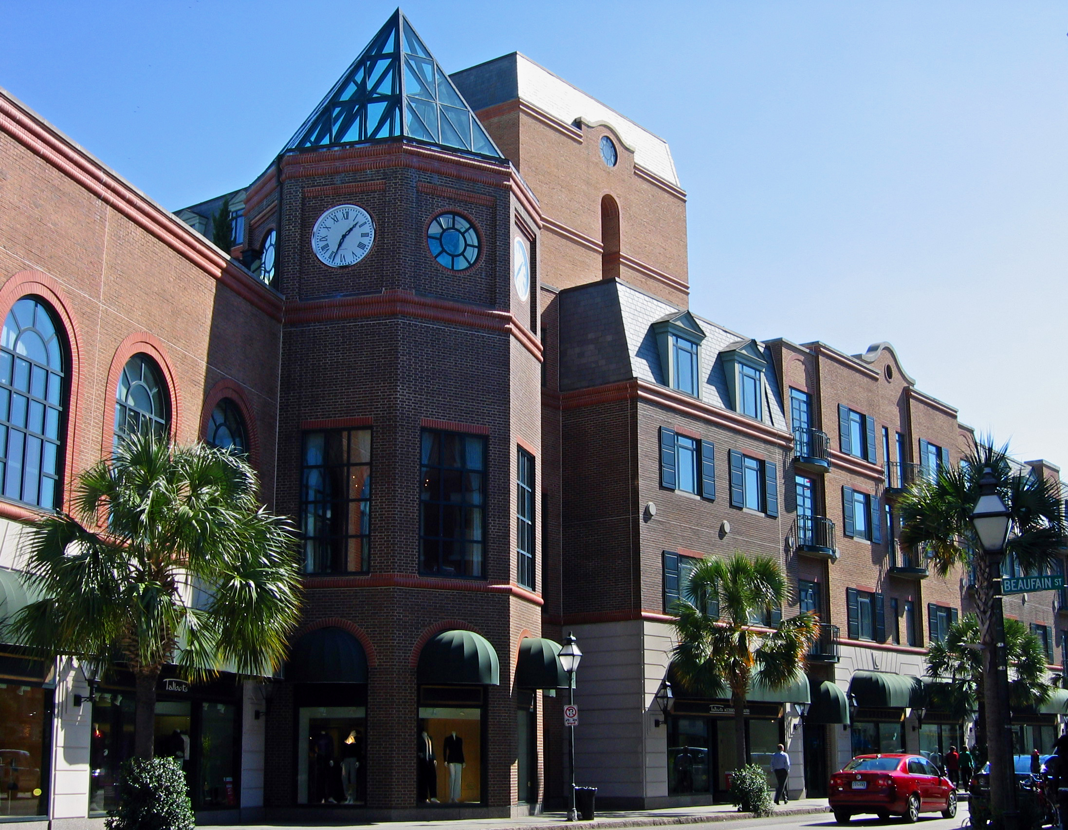 Photo by User:AudeVivere